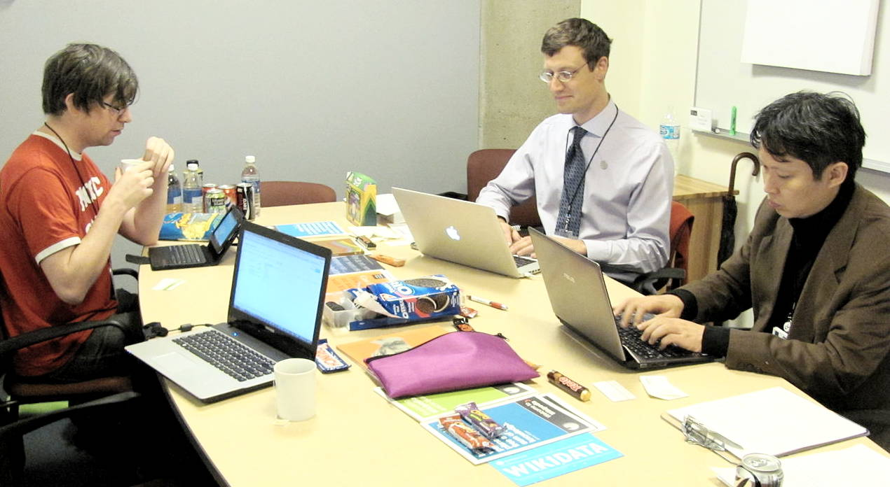 David Kernohan, Pete Forsyth, and Tomoaki Watanabe at a Communicate OER workshop at the Open Education 2012 conference in Vancouver, British Columbia.